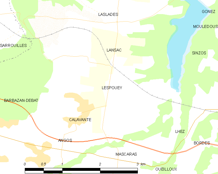 Map of French municipality